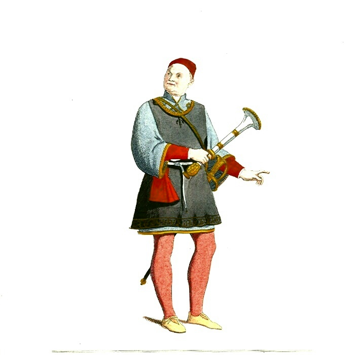 Illustration of a man in renaissance clothing by Paul Mercuri from "Costumes Historiques" (Paris, ca.1850′s or 60’s). Scanned and archived at where it was marked as Public Domain.